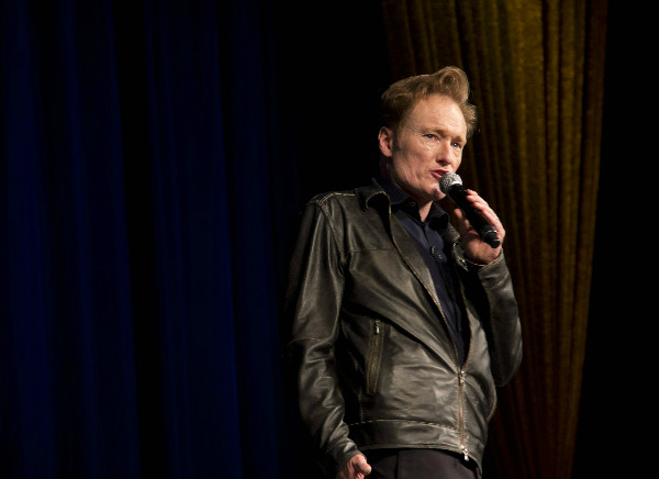 Conan O'Brien speaks at UCSD on April 20, 2012.